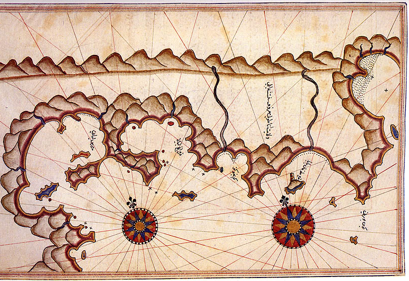 Marmaris in Turkey on the Kitab-Ä± Bahriye (Book of Navigation) of Piri Reis